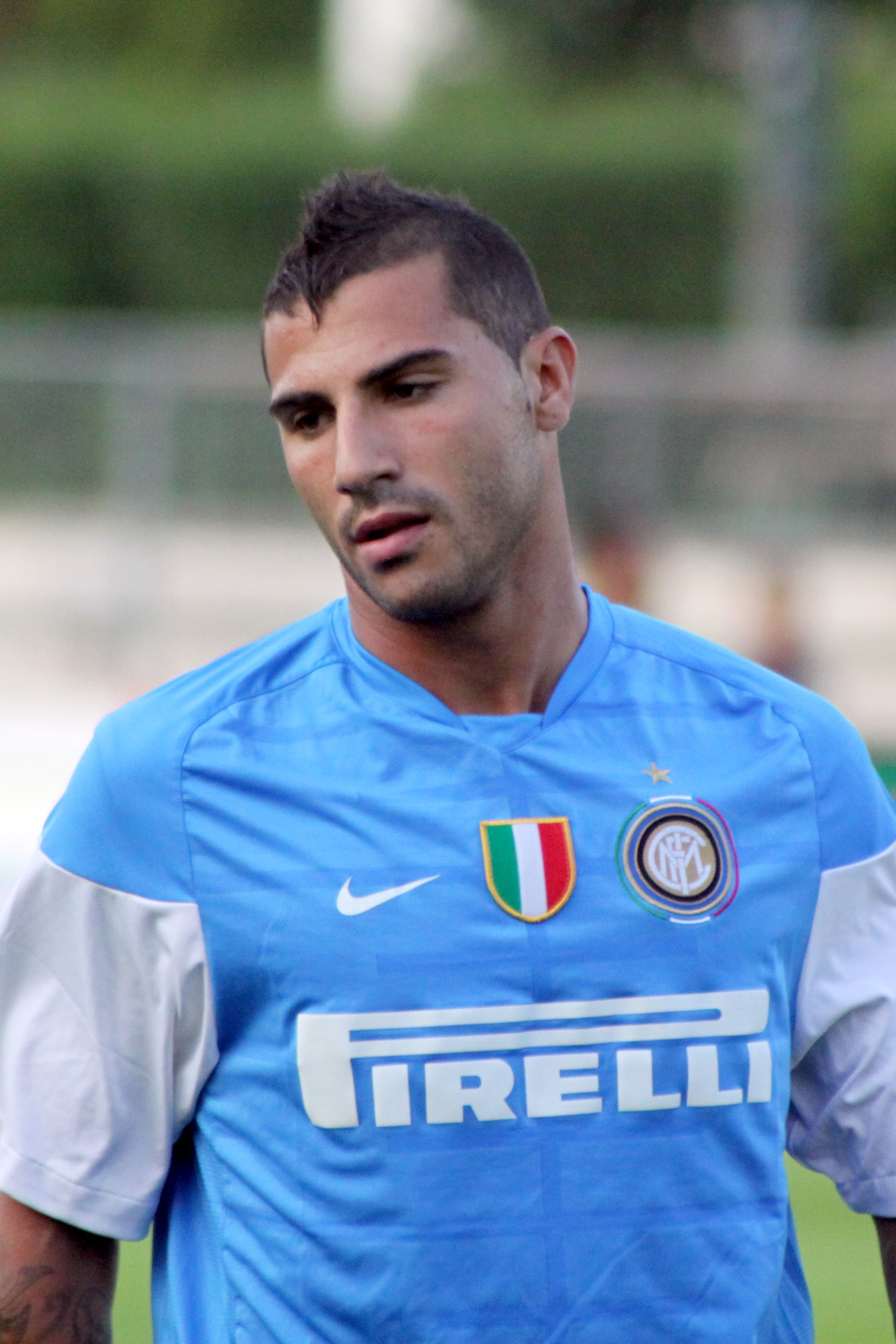 Ricardo Quaresma - F.C. Internazionale Milano.